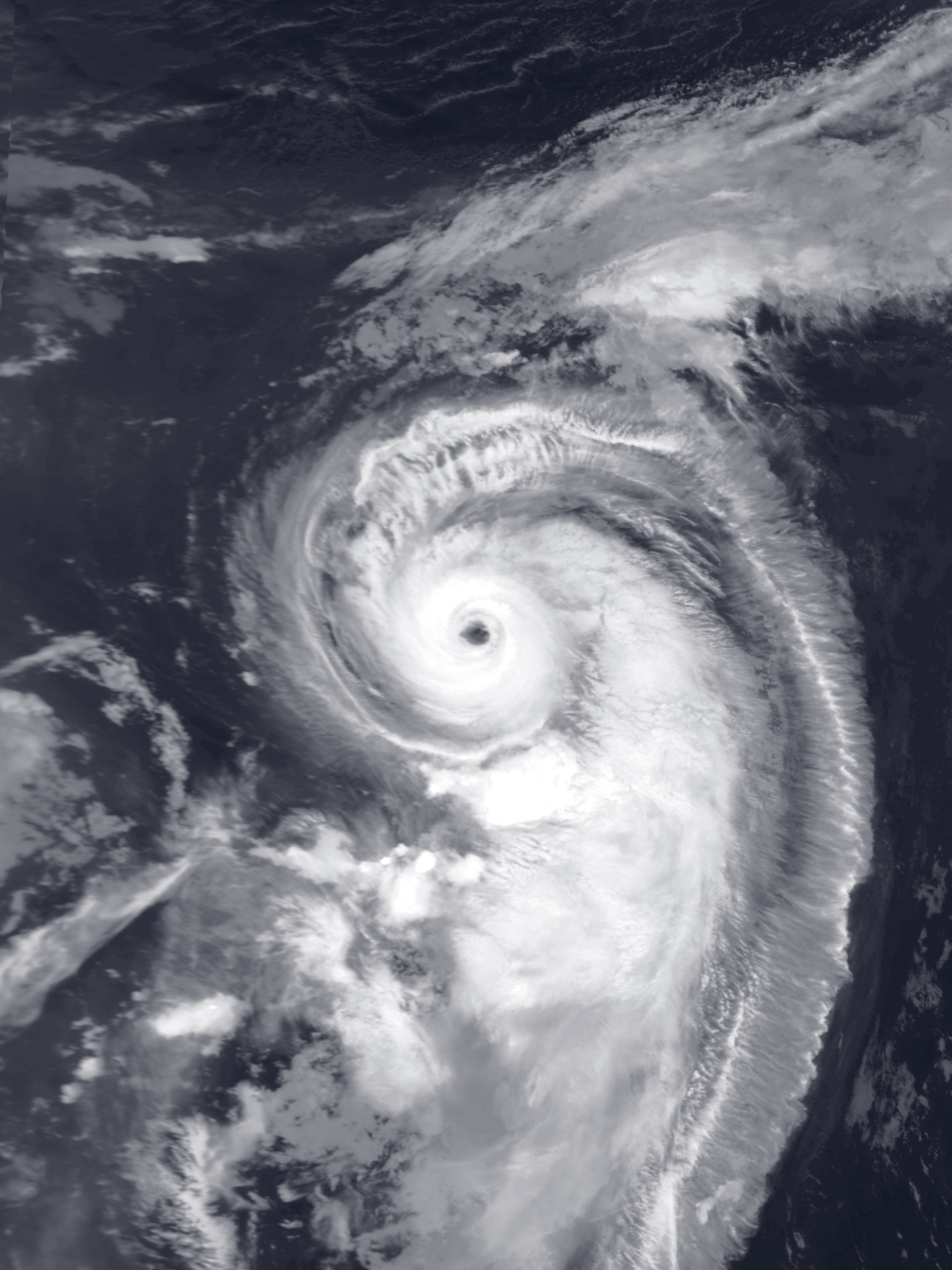 Hurricane Maria at peak intensity on September 6, 2005